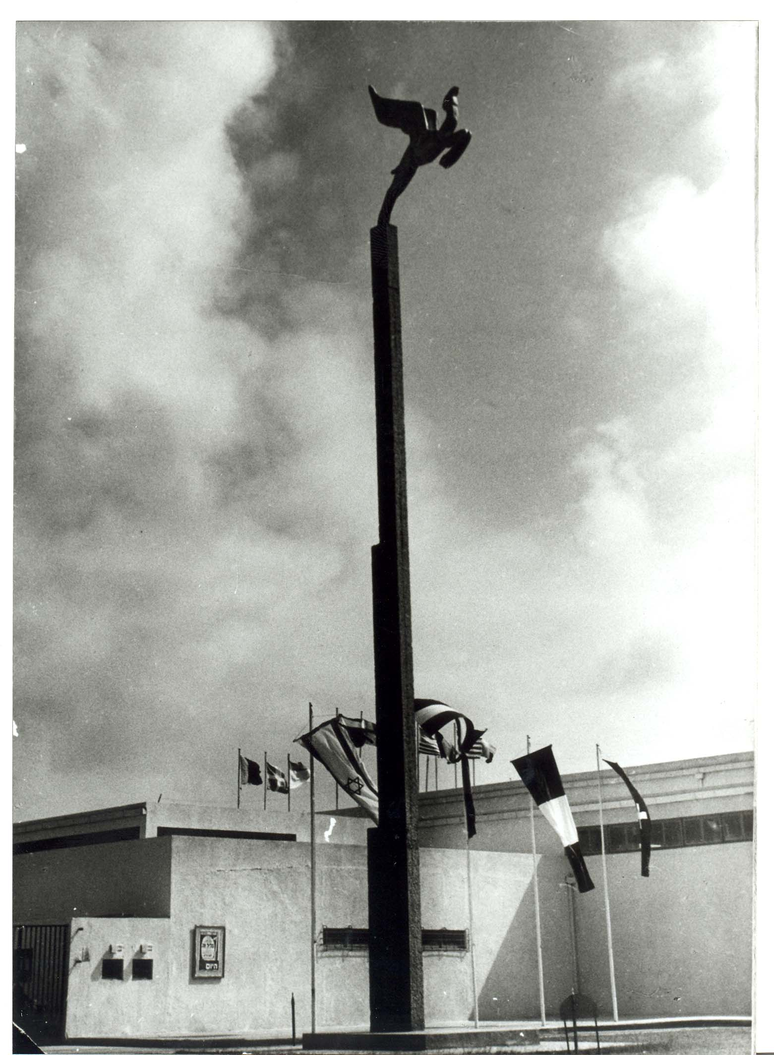 Events in Israel